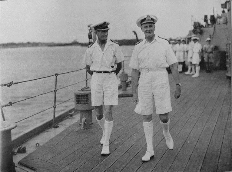 Vice-Admiral Sir James Somerville with Captain G.N. Oliver on board H.M.S. Warspite. This photograph was taken after Admiral Somerville had left force H to take command of the Eastern Fleet.